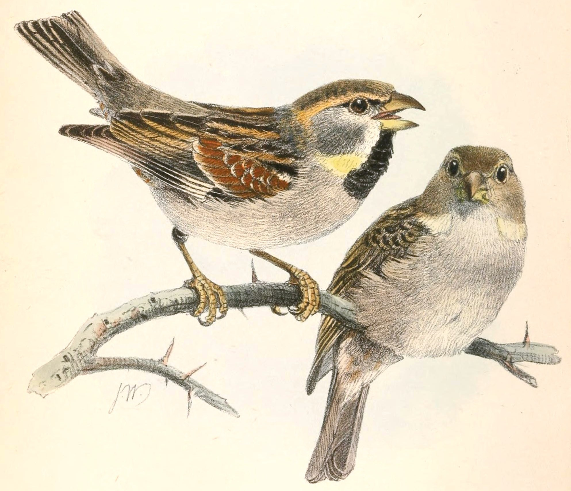 Dead Sea Sparrow pair